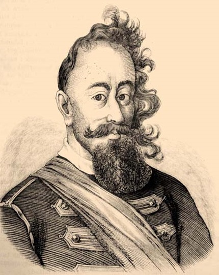 Sigismund Báthory portrait in Vasárnapi Ujság, Hungary.